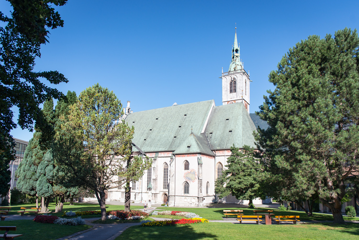 The parish church of the district capital Schwaz